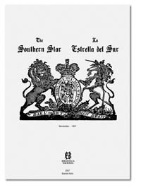 Newspaper "The Southern Star / La Estrella del Sur", written in both english and spanish.